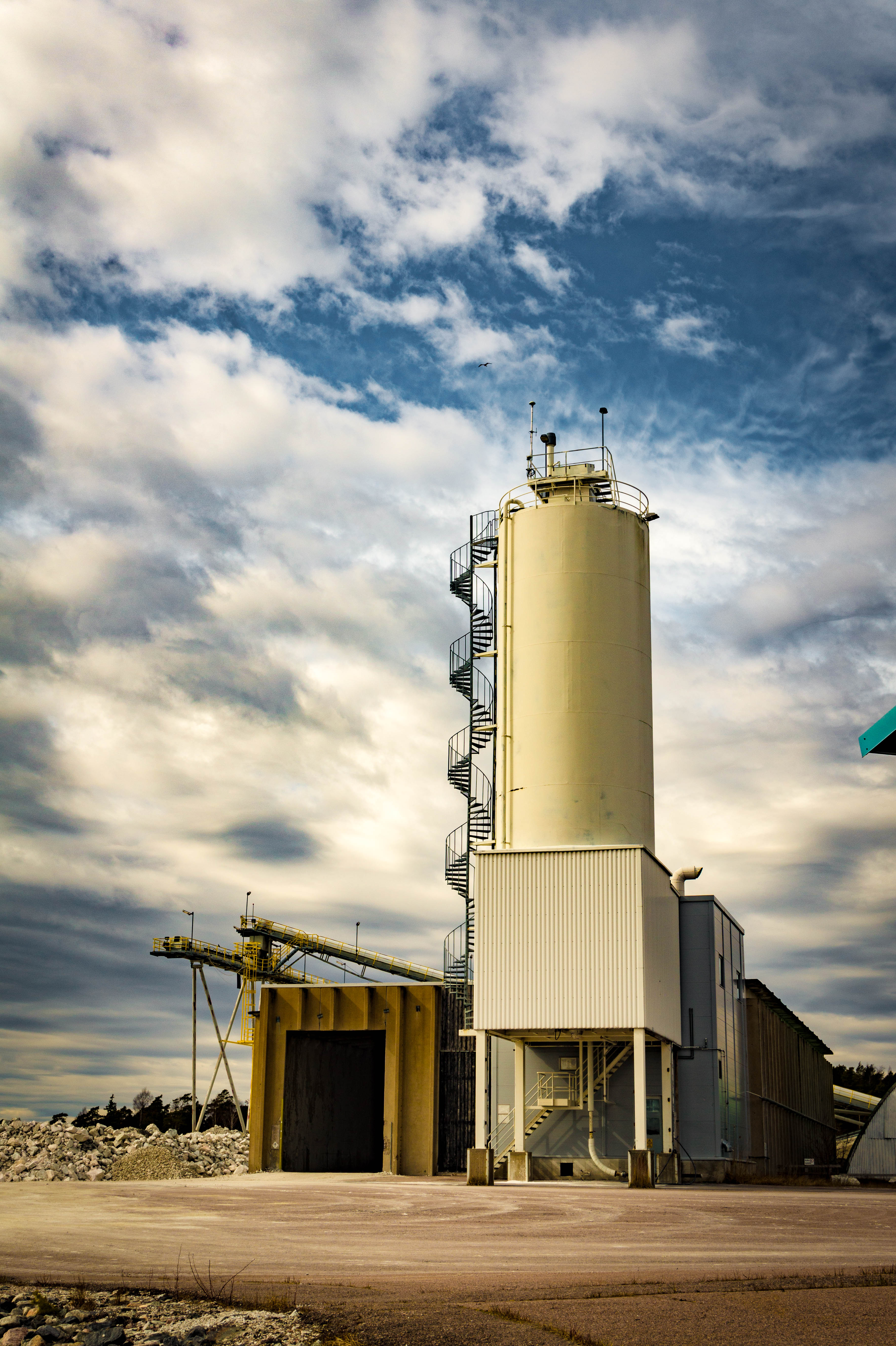 Nordkalk factory in Kalkkiranta, Sipoo, Finland